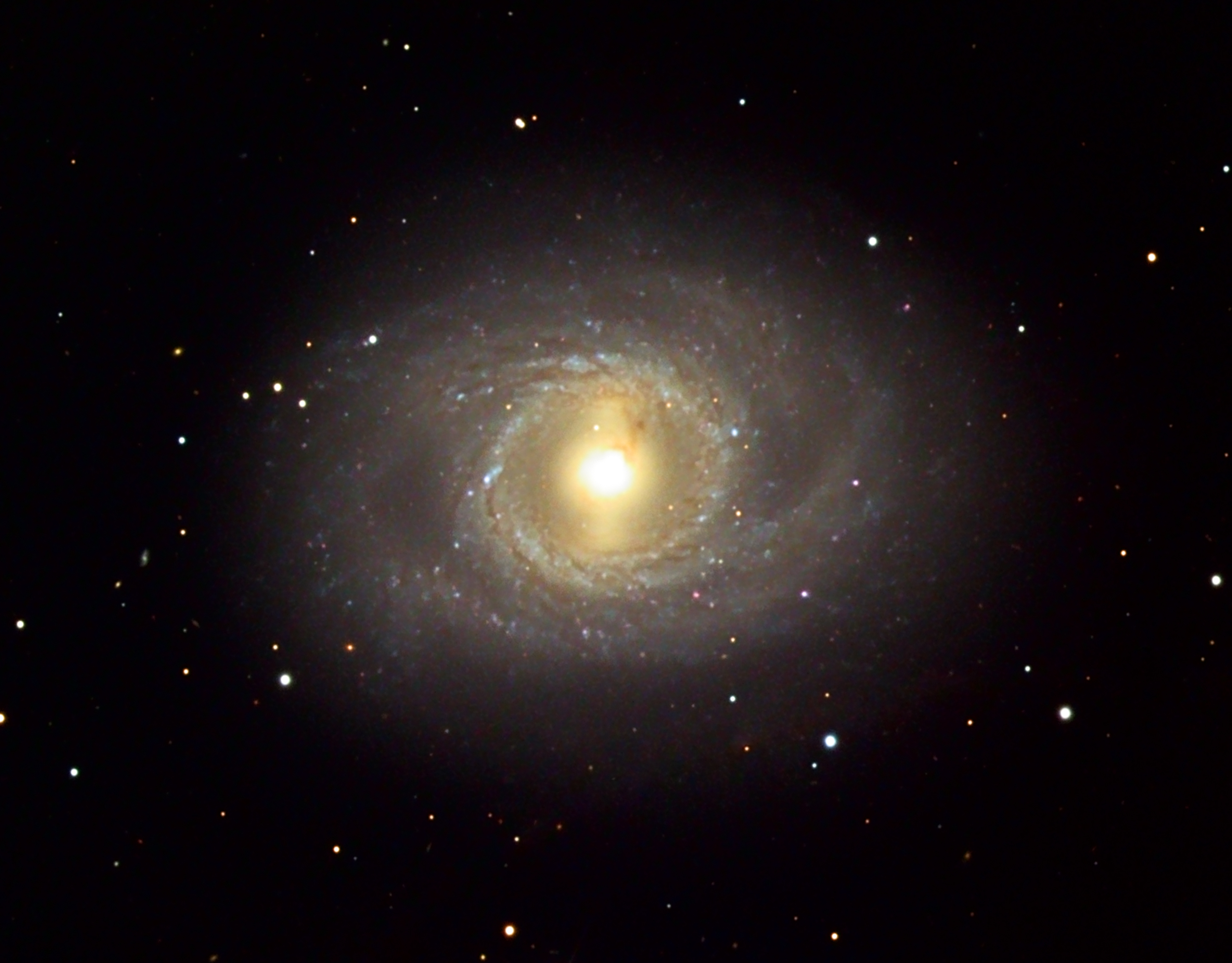 Messier 95 spiral galaxy, 24 inch telescope on Mt. Lemmon, AZ.